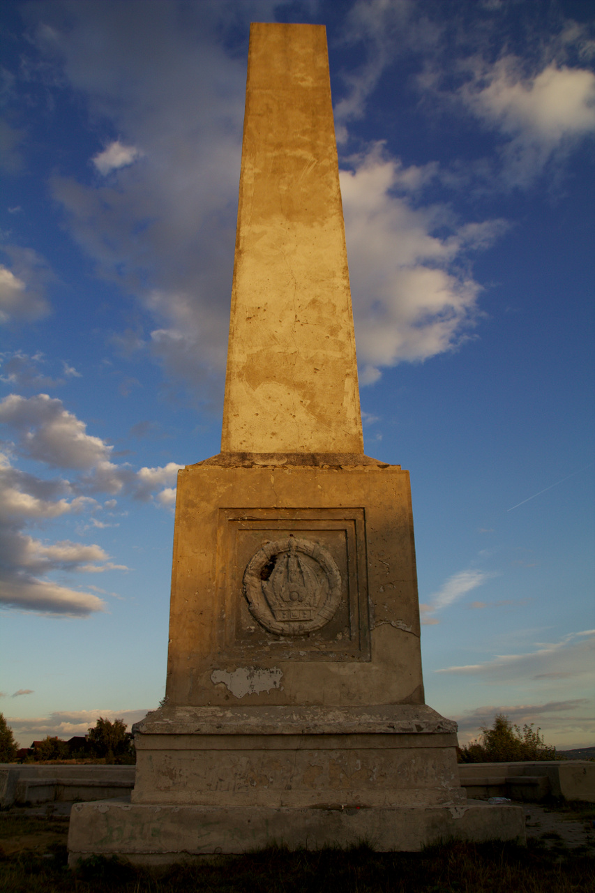 Kaim Hill Memorial